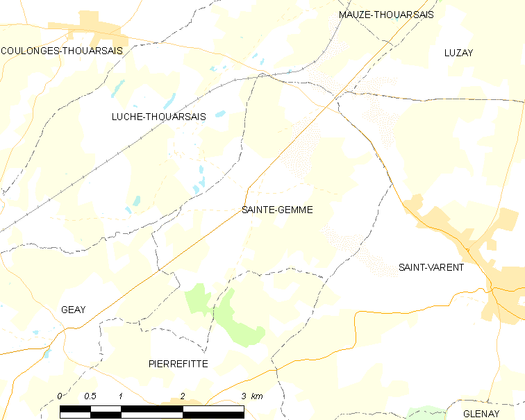 Map of French municipality Sainte-Gemme